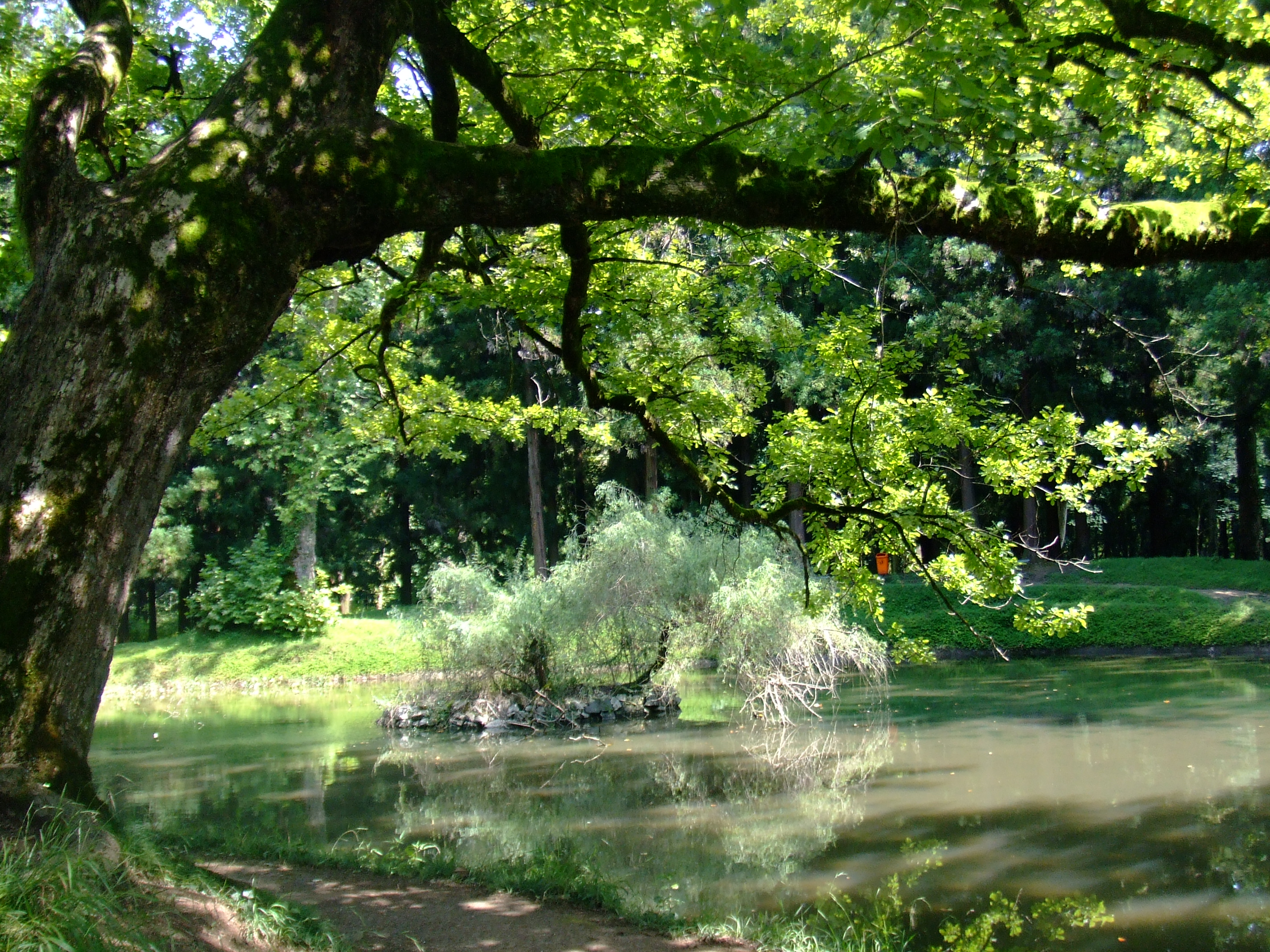 Zugdidi botanical garden